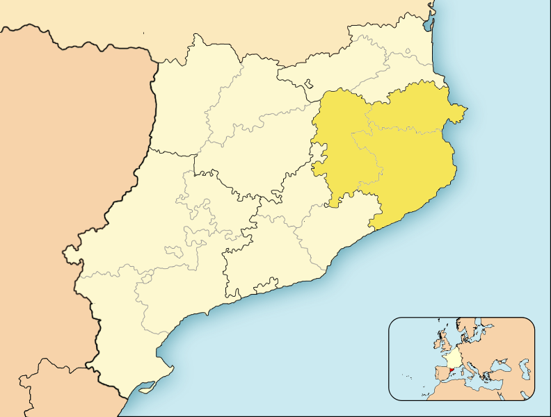 Departament del Ter